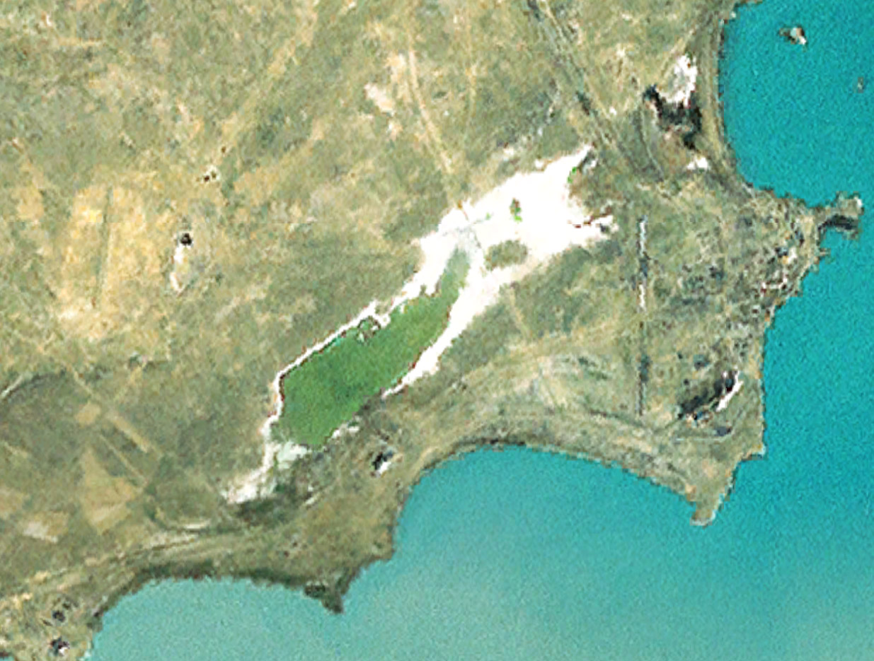 Public domain aerial photography of Balkhash-9 radar station in Kazakhstan. Photography is from the i-cubed landsat layer of NASA's World Wind. Visible are the receiver and transmitter buildings of the Daryal radar, 4 demolished Dnestr radars and one functional Dnepr radar. The Dnepr is in the lower right corner of the land, it is the V-shaped object near the lakeshore. The remains of the original two Dnestr's (number 1 and 2) are arranged in a vertical line just to the left and above the Dnepr. These remain easily visible in this image. The townsite of Balkhash-9 is just to the right of these radars. The second pair of Dnestr's was built just above the originals. These are less visible in this photograph, running on an angle starting just above the upper radar of the original pair. The middle of one of them is just above the upper right tip of the dried-out portion of the pond, the second is visible at the very top of the image. The Daryal's receiver is the large white building just left of center, located between the lakeshore and the pond. Its transmitter is somewhat less visible in the very lower left corner of the image.